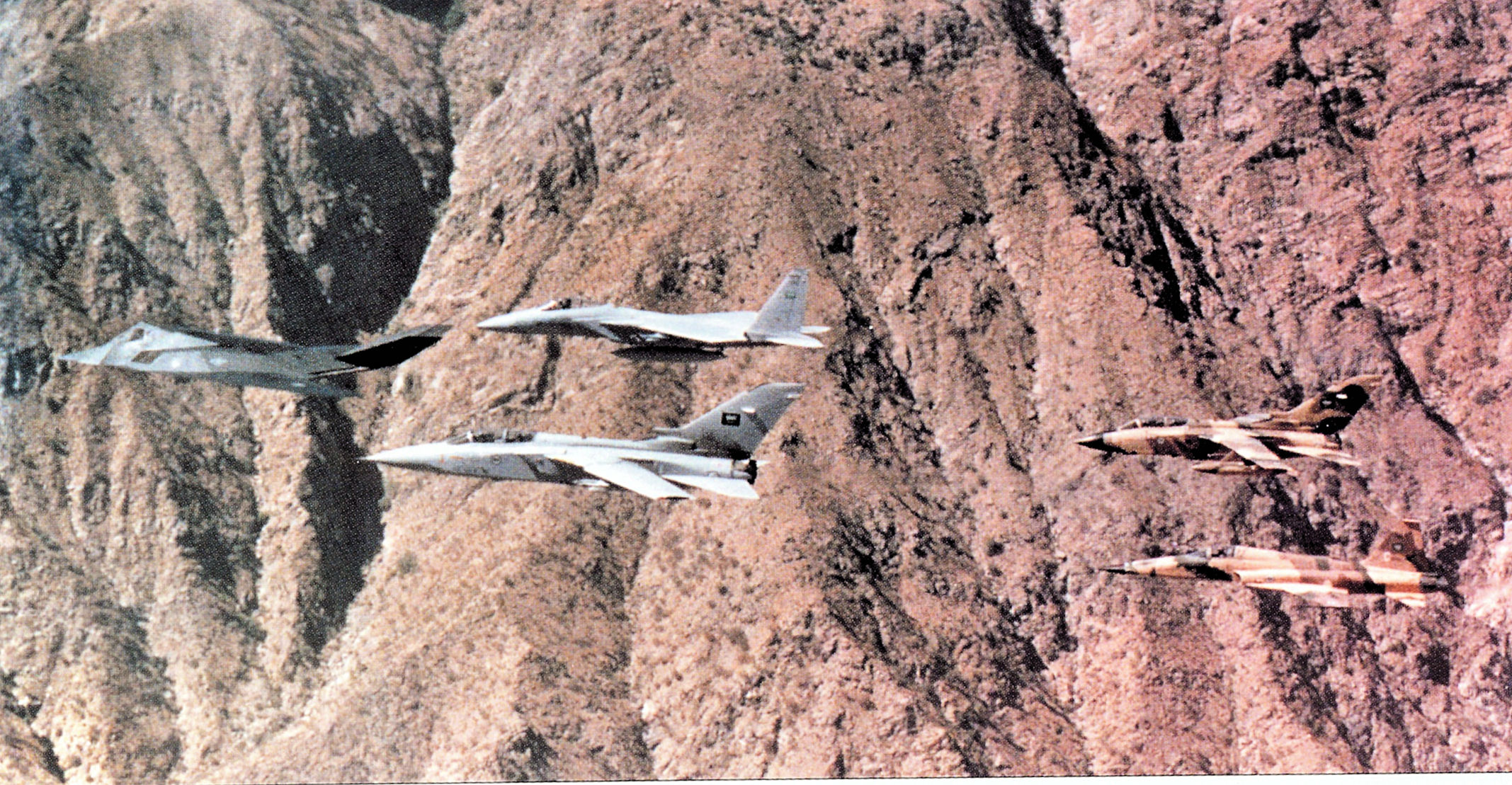 37th Tactical Fighter Wing (Provisional) F-117A Nighthawk leading a formation of Royal Saudi Air Force aircraft over the desert during Operation Desert Storm. The formation includes a Boeing F-15C, Tornado air defense and ground attack variants, along with a Northop F-5E